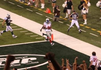 Victor Cruz.